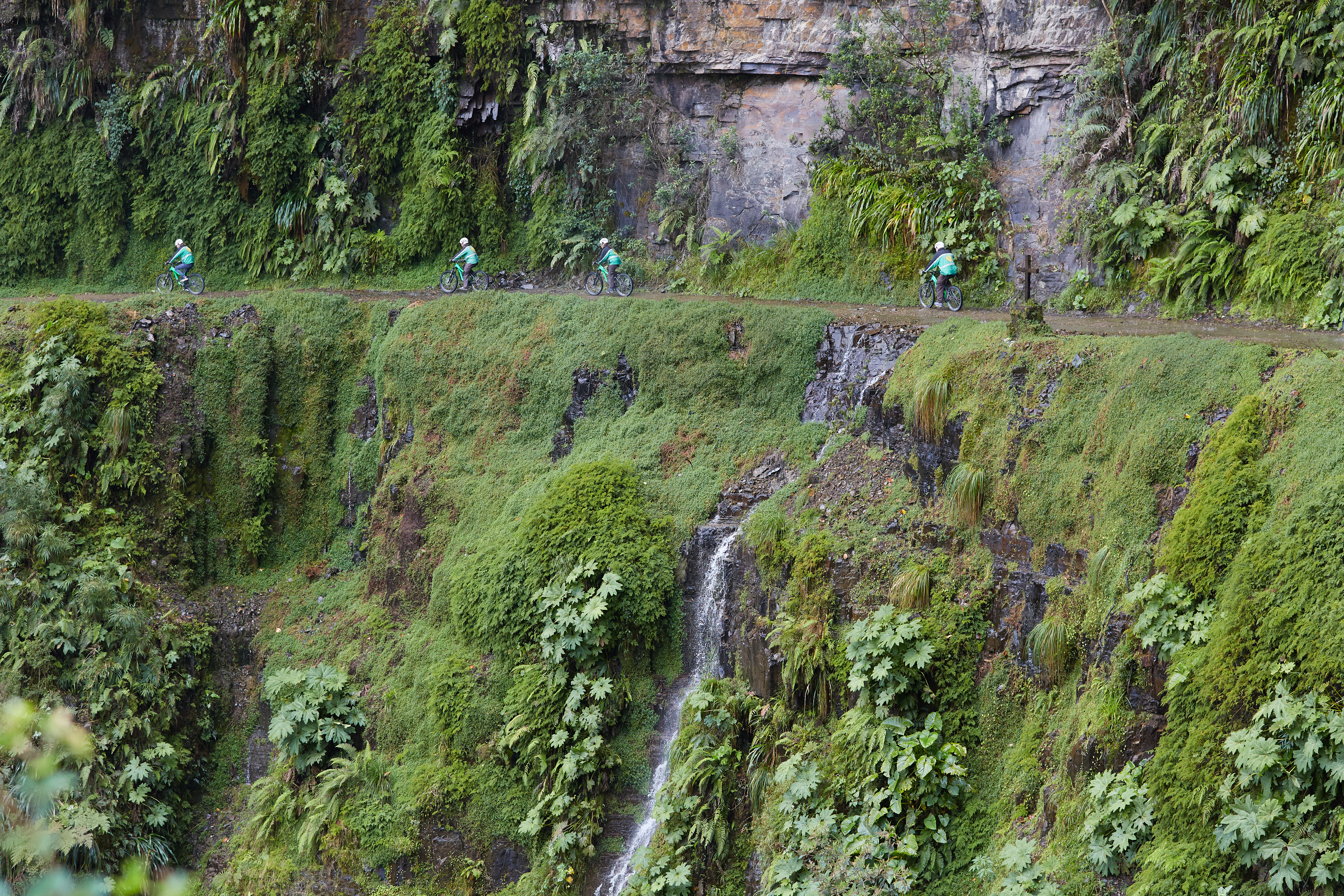 Mountain bikers on Yungas Road in Bolivia